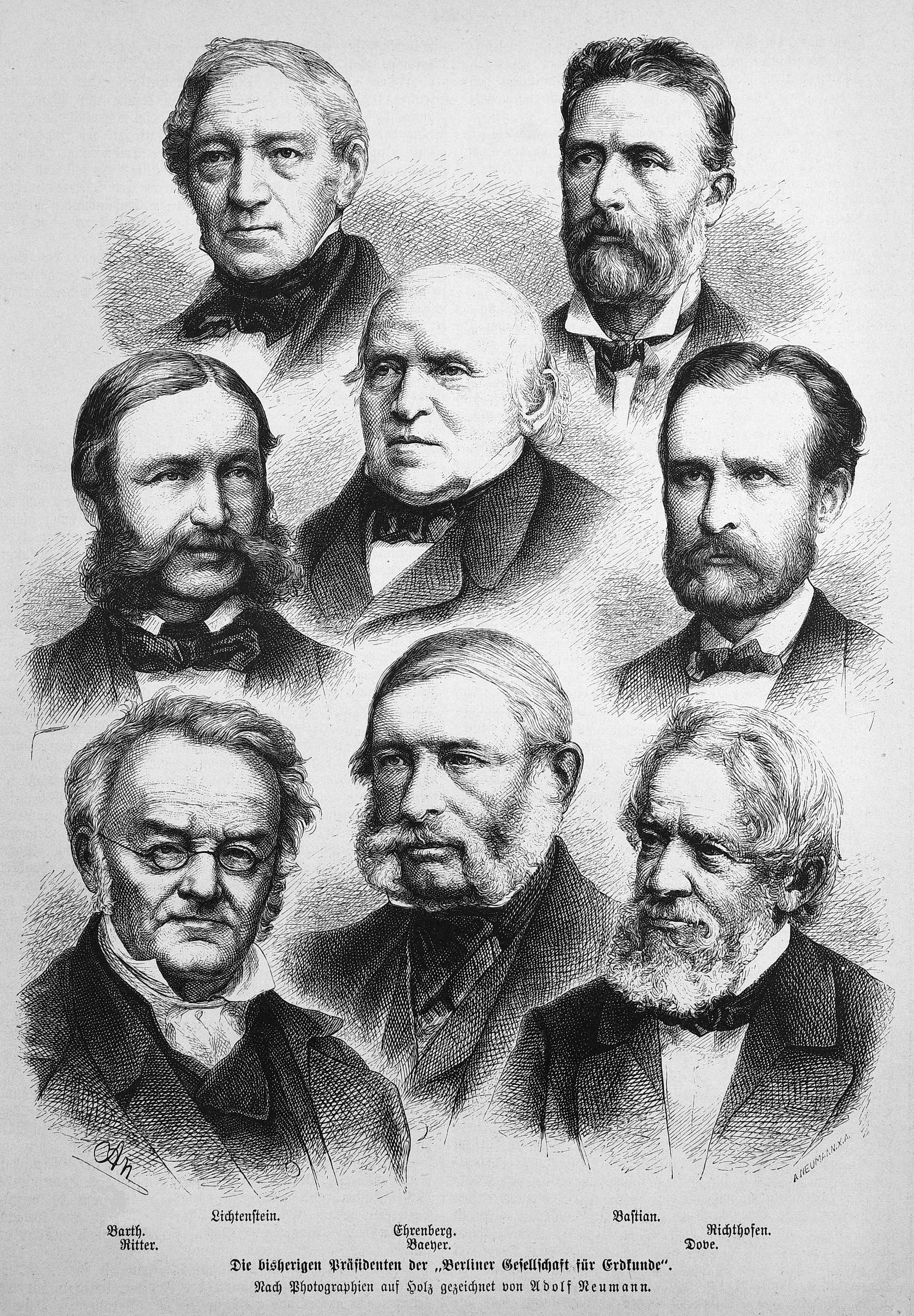 no caption